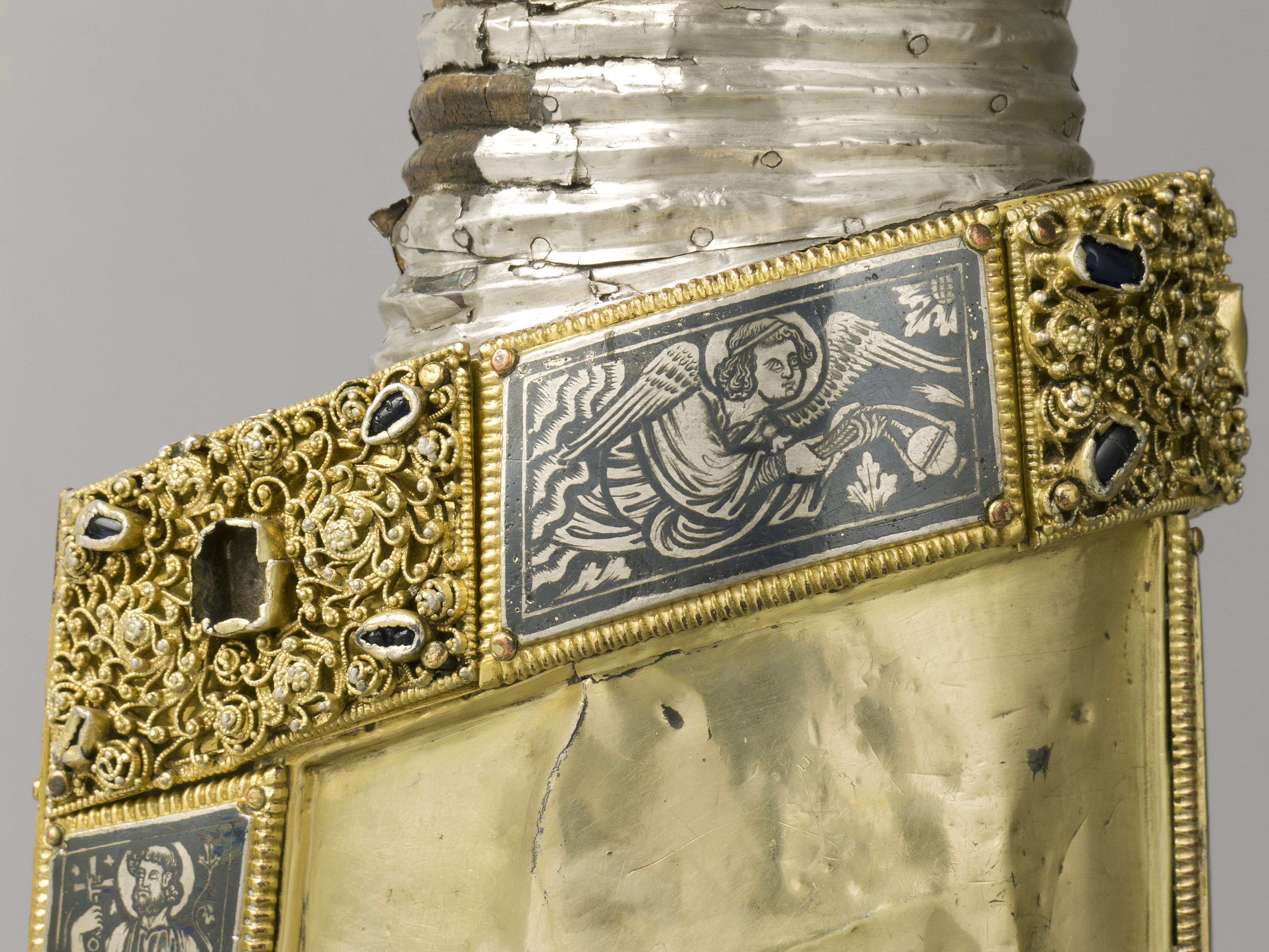 South Netherlandish; Reliquary; Metalwork-Silver